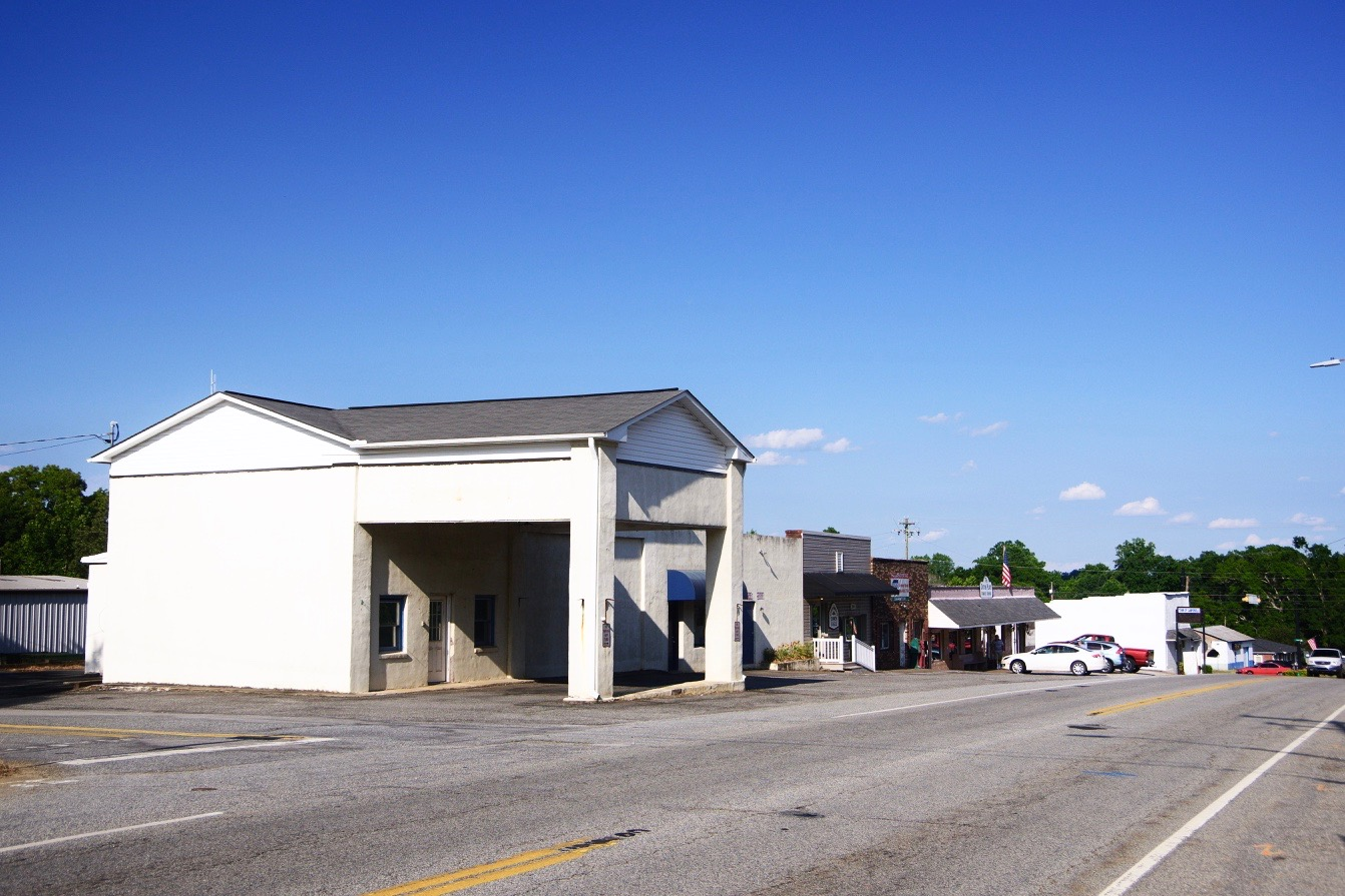 View along Main Street (U.S. Route 176) in Campobello, South Carolina, United States.